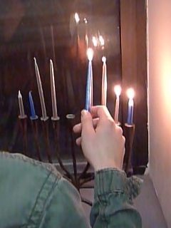 A Brooklyn resident lighting candles on Hannukah 2008 at house.